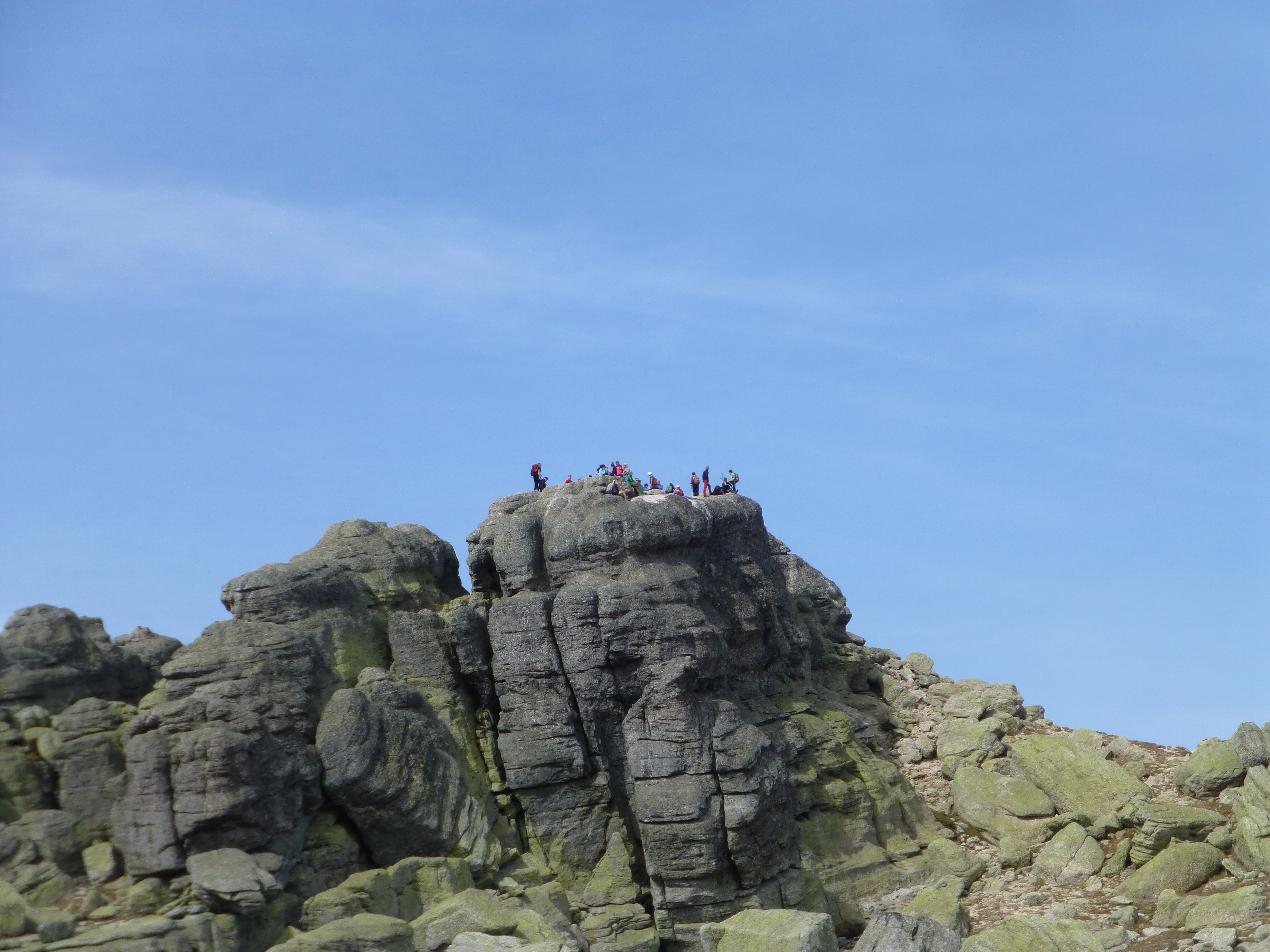 Cumbre del Pico Urbión. Soria, España.